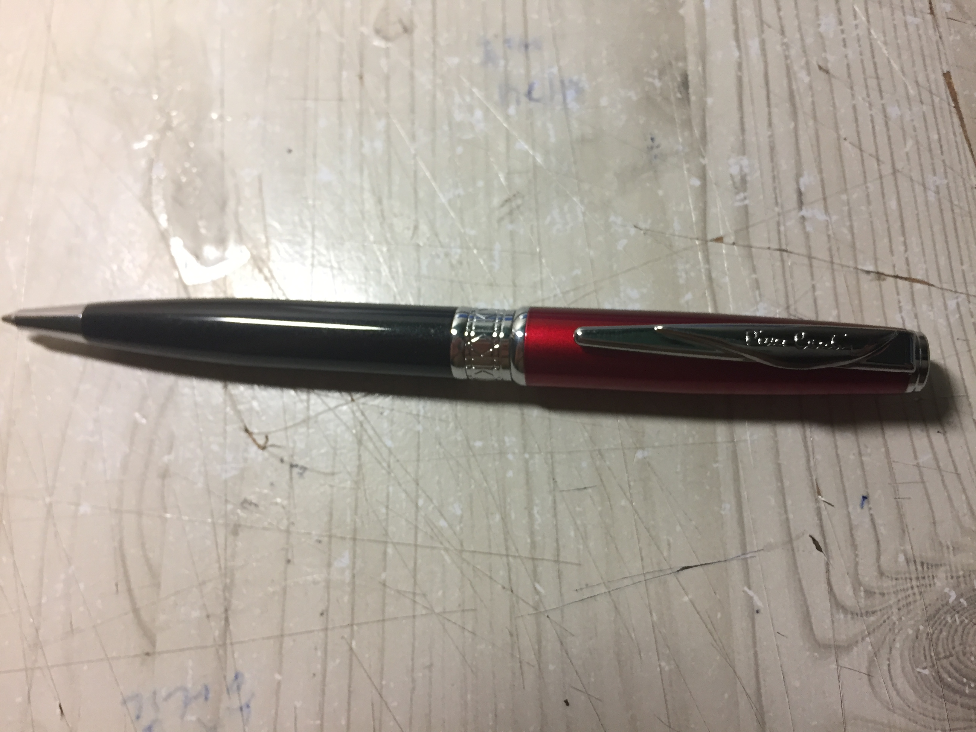 Pierre Cardin ball pens